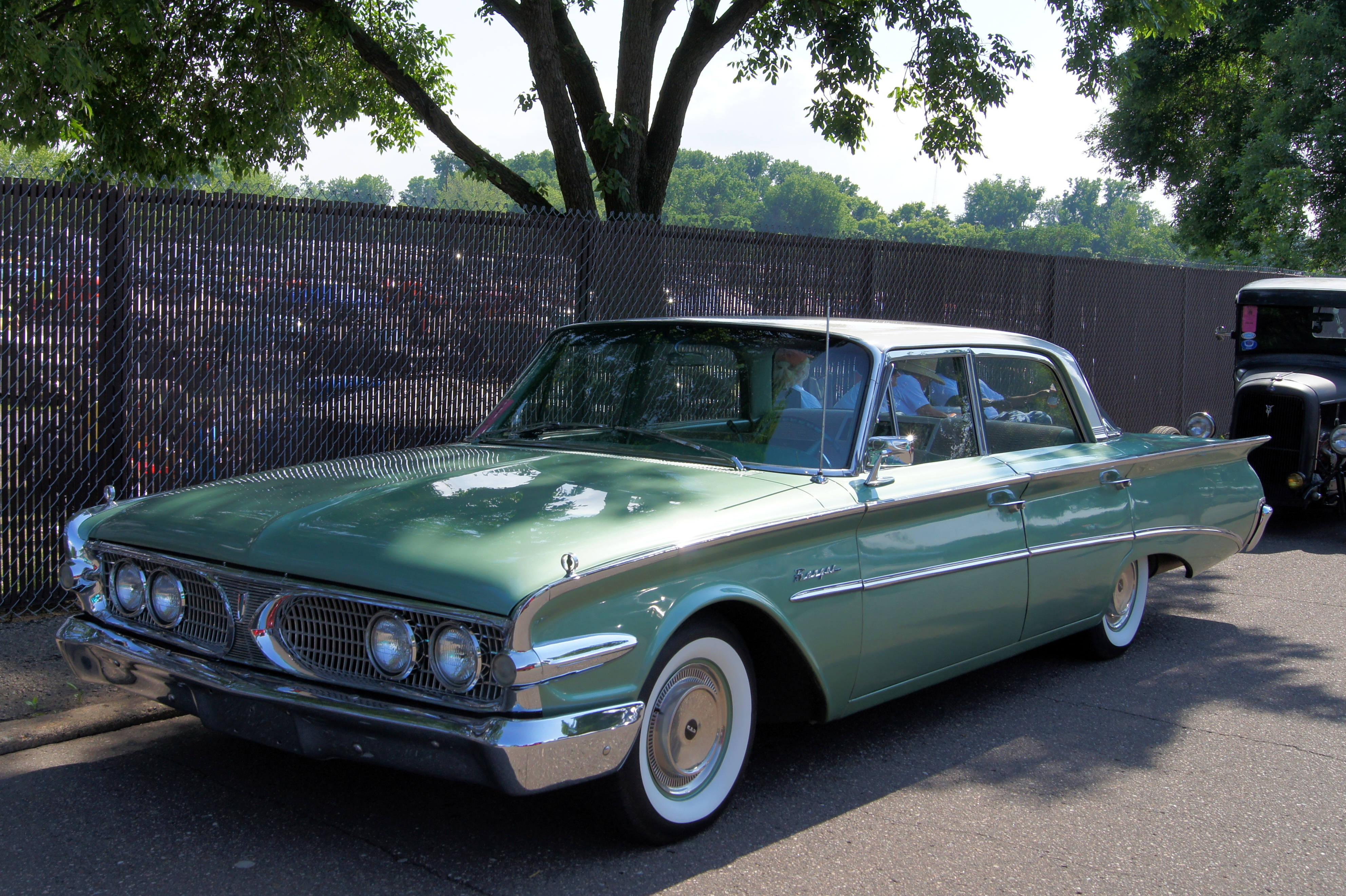 MSRA “BACK TO THE 50′s” 40th ANNIVERSARY June 21-23, 2013 State Fairgrounds St. Paul Minnesota More Car Pictures